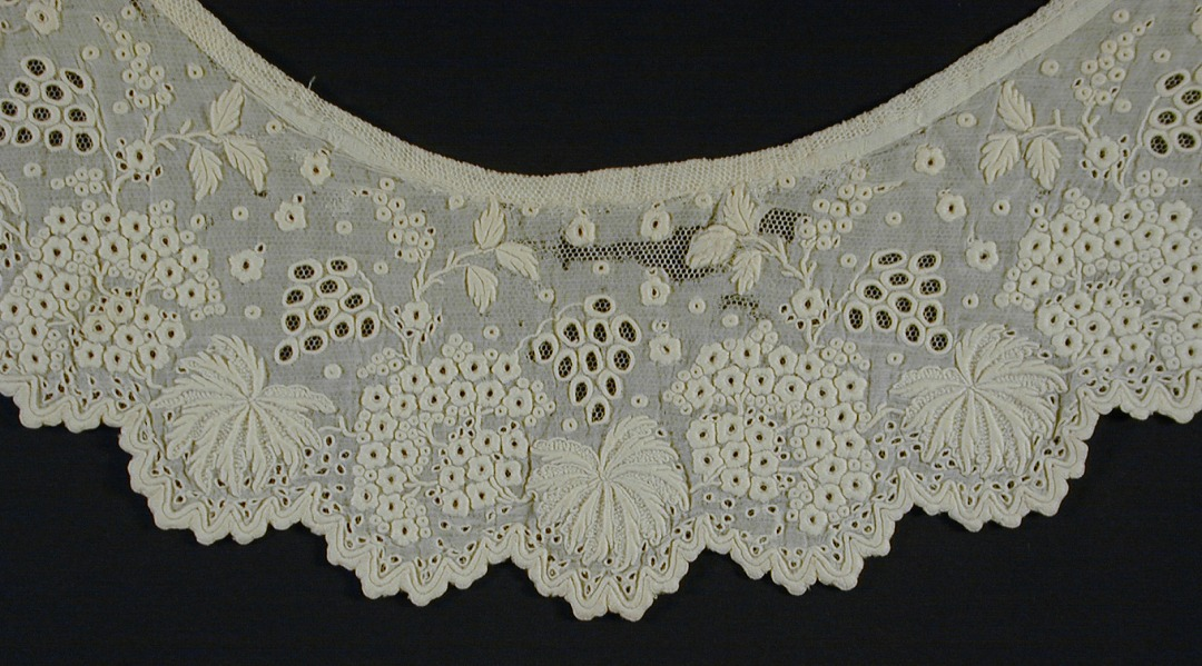 United States, mid 19th century Costumes; Accessories Linen plain weave, nylon machine net, cotton embroidery Gift of Kathryn W. Leighton (33.24.2) Costume and Textiles